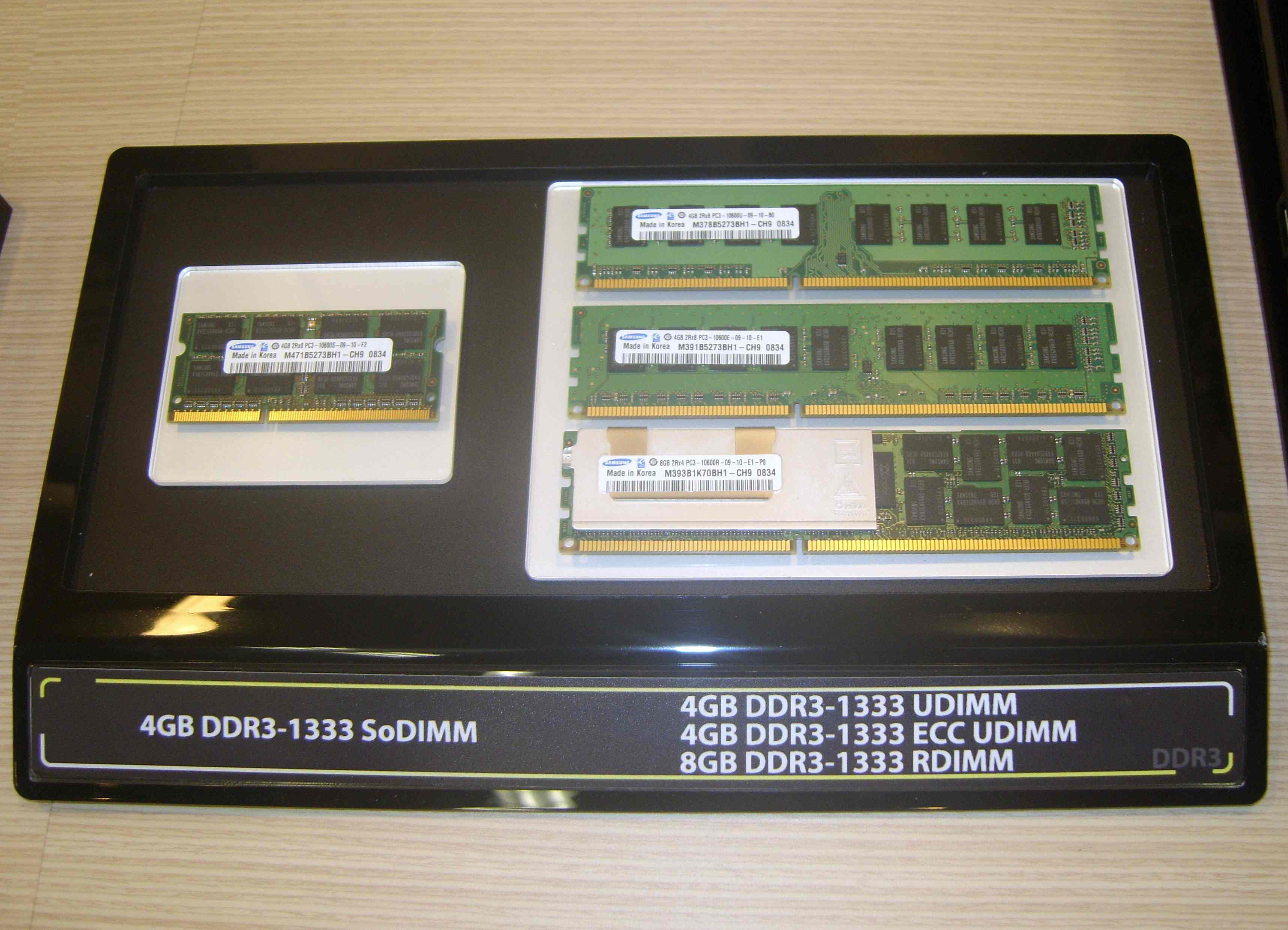 2008 Intel Developer Forum in Taipei: Samsung DDR3 Modules.